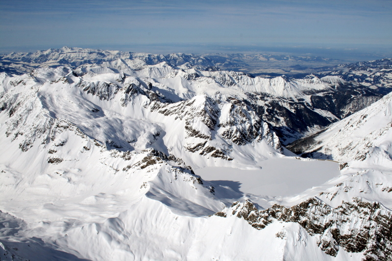 Schesaplana and Lüner See